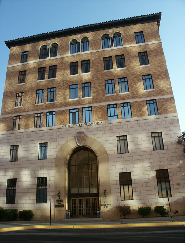 The old Federal Building and US Courthouse in Albuquerque, New Mexico, USA, built in 1930.